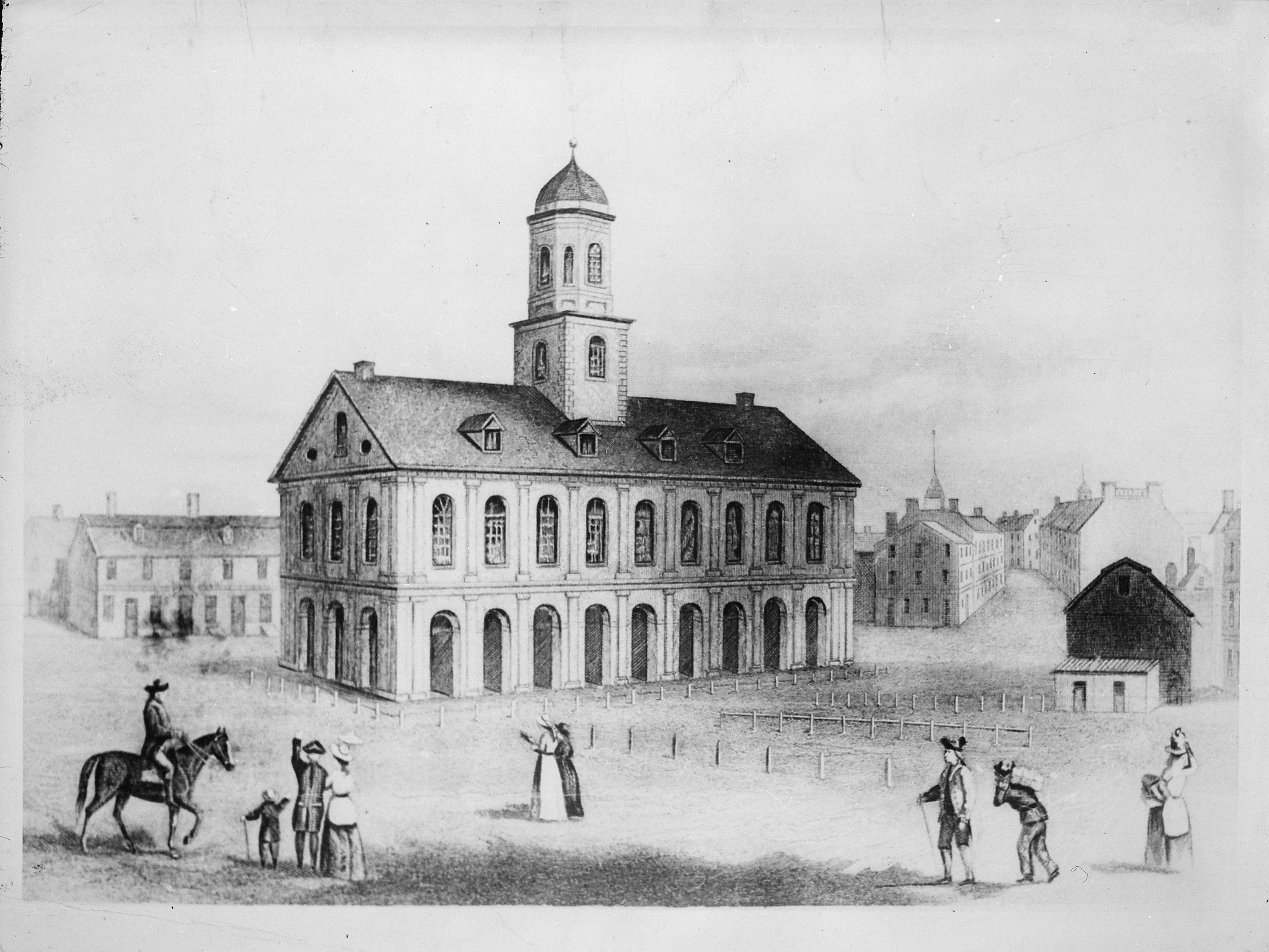 General notes: Illustration from a steel engraving from the Massachusetts Magazine